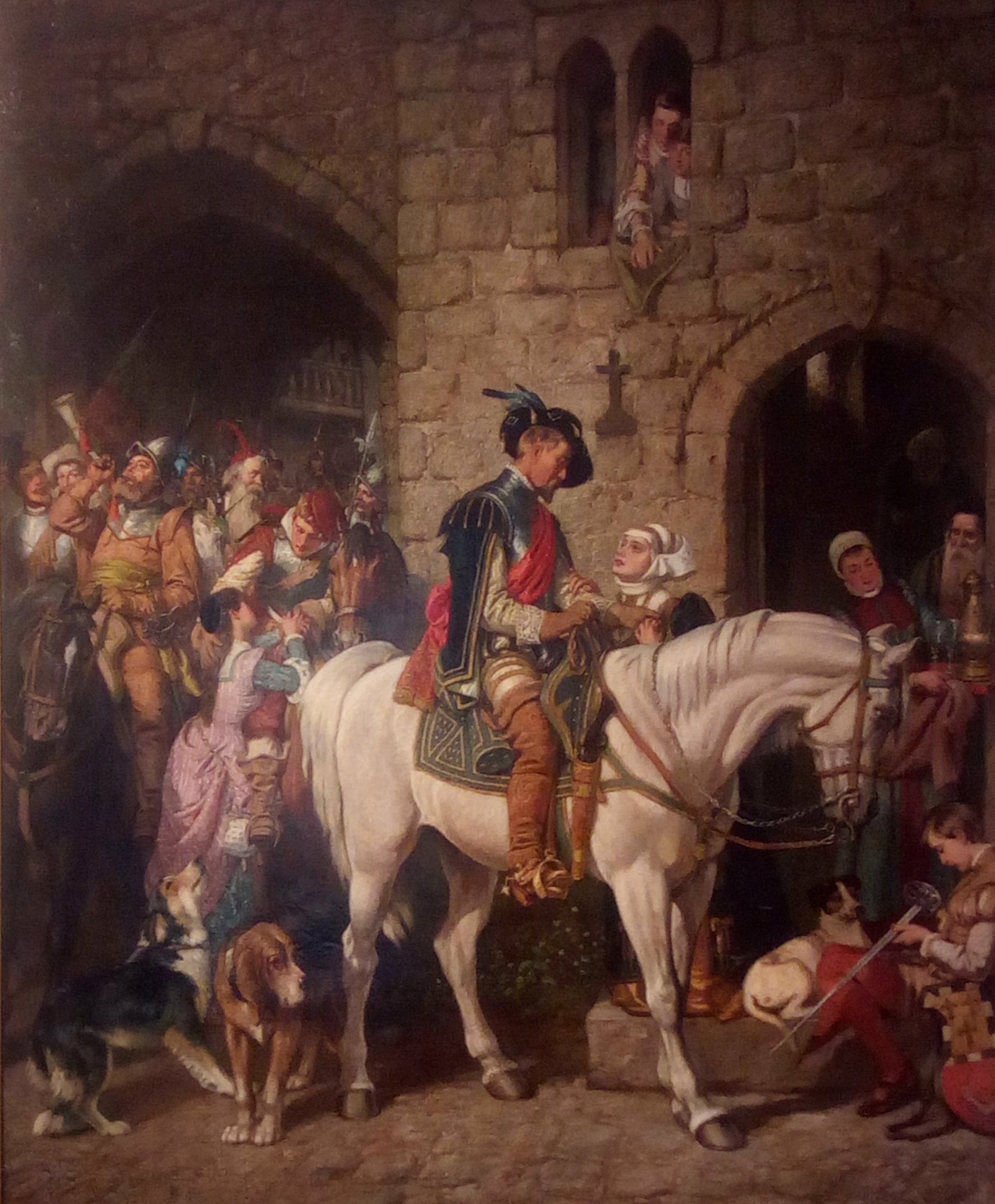 Johnny Armstrong painting by Henry Hetherington Emmerson at Laing Art Gallery in Newcastle today. Painted in 1886 it shows him on an ill advised journey to meet James V